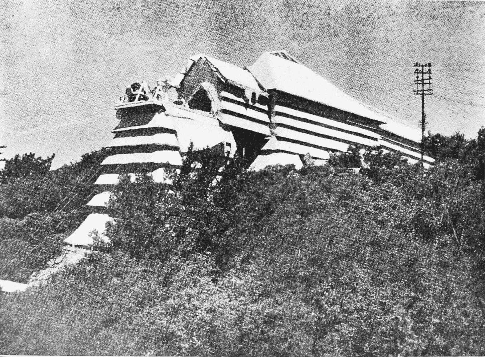 Snow telescope house solar observatory on mount Wilson